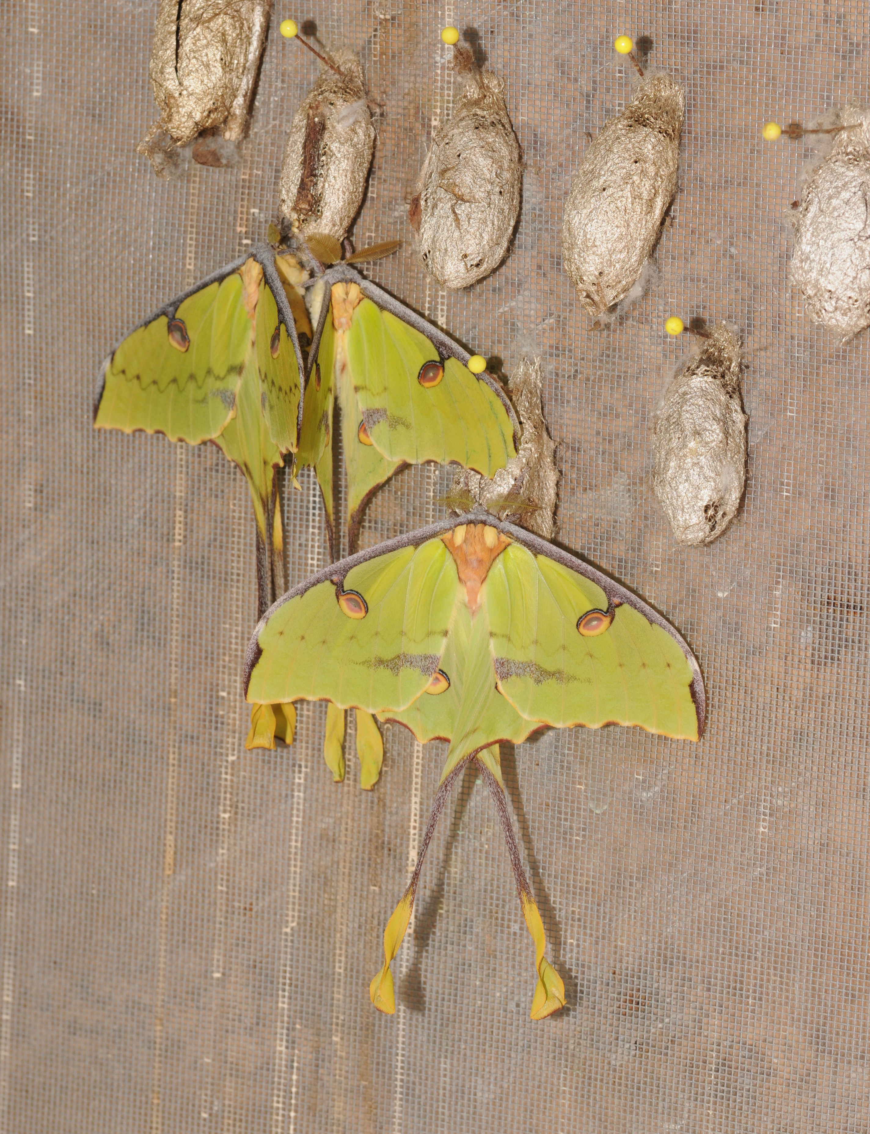 This photograph was taken with a Nikon D300 Lépidoptère. Argema mimosae